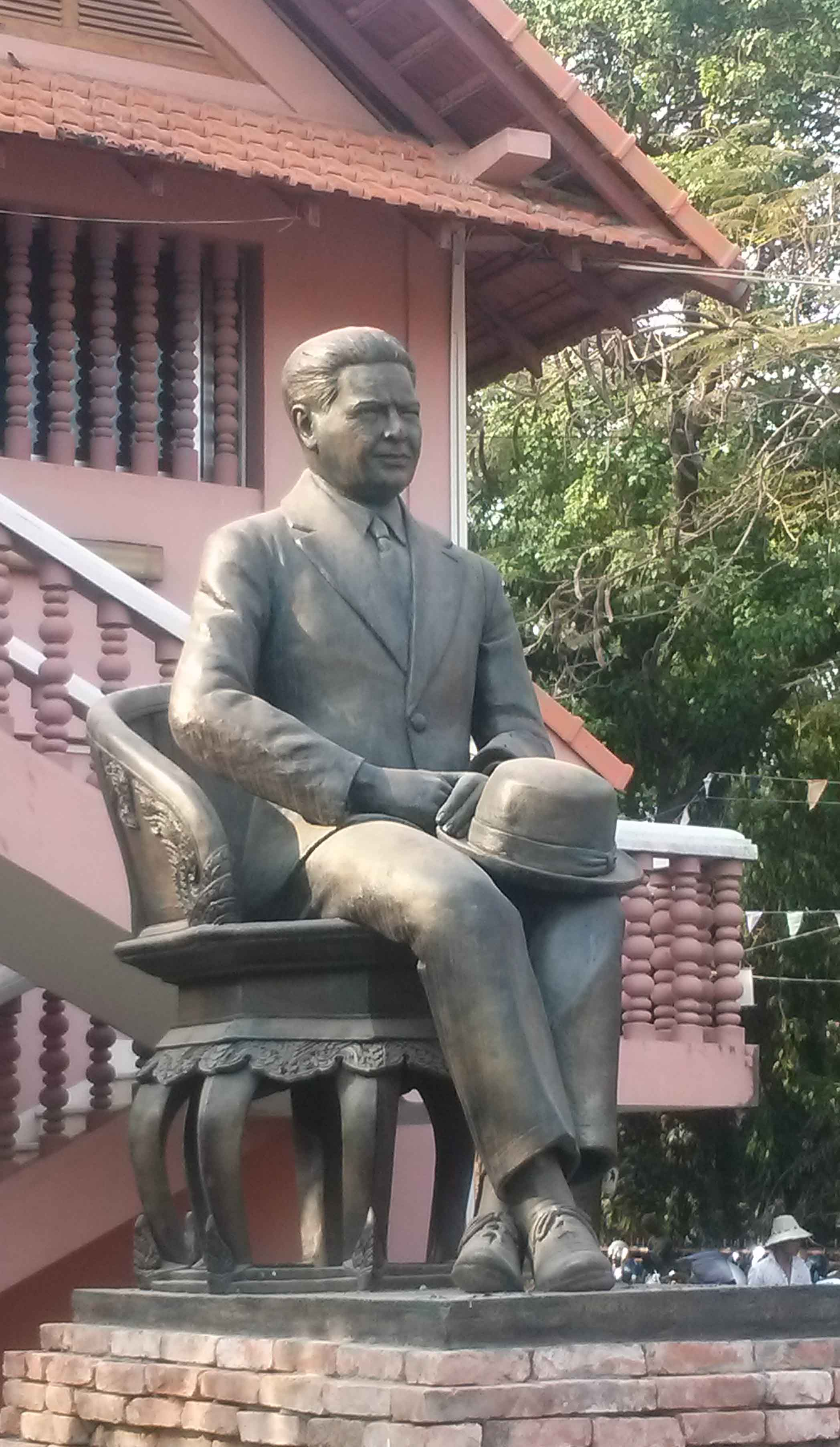 The statue of George Groslier, founder of Khmer museum